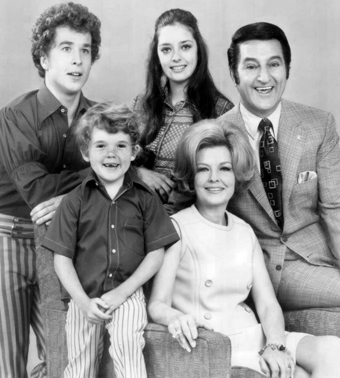 Cast photo from the television program Make Room for Granddaddy, which was a sequel show to Make Room for Daddy. Back from left: Rusty Hamer (Rusty), Angela Cartwright (Linda), Danny Thomas (Danny Williams). Front from left: Michael Hughes (grandson Michael), Marjorie Lord (Kathy Williams).